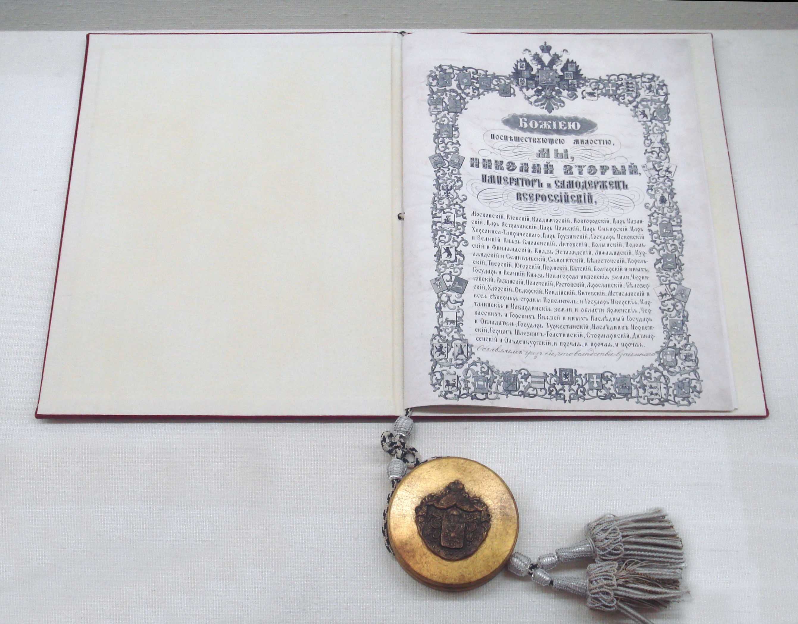 Ratification of the Peace Treaty between Japan and Russia, 25 November 1905.Text: Божіею поспѣшествующею милостію, Мы, Николай Вторый, Императоръ и Самодержецъ Всероссійскій, Московскій, Кіевскій, Владимірскій, Новгородскій, Царь Казанскій, Царь Астраханскій, Царь Польскій, Царь Сибирскій, Царь Херсониса-Таврическаго, Царь Грузинскій; Государь Псковскій и Великій Князь Смоленскій, Литовскій, Волынскій, Подольскій и Финляндскій, Князь Эстляндскій, Лифляндскій, Курляндскій и Семигальскій, Самогитскій, Бѣлостокскій, Ворельскій, Тверскій, Югорскій, Пермскій, Вятскій, Болгарскій и иныхъ; Государь и Великій Князь Новагорода низовскія земли, Черниговскій, Рязанскій, Полотскій, Ростовскій, Ярославскій, Бѣлозерскій, Удорскій, Обдорскій, Кондійскій, Витебскій, Мстиславскій и всея сѣверныя страны Повелитель; и Государь Иверскія, Карталинскія и Кабардинскія земли и области Арменскія, Черкасскихъ и Горскихъ Князей и иныхъ Наслѣдскій Государь и Обладатель; Государь Туркестанскій, Наслѣдникъ Норвежскій, Герцогъ Шлезвигъ-Голстинскій, Стормарнскій, Дитмарсенскій и Ольденбургскій, и прочая, и прочая, и прочая.